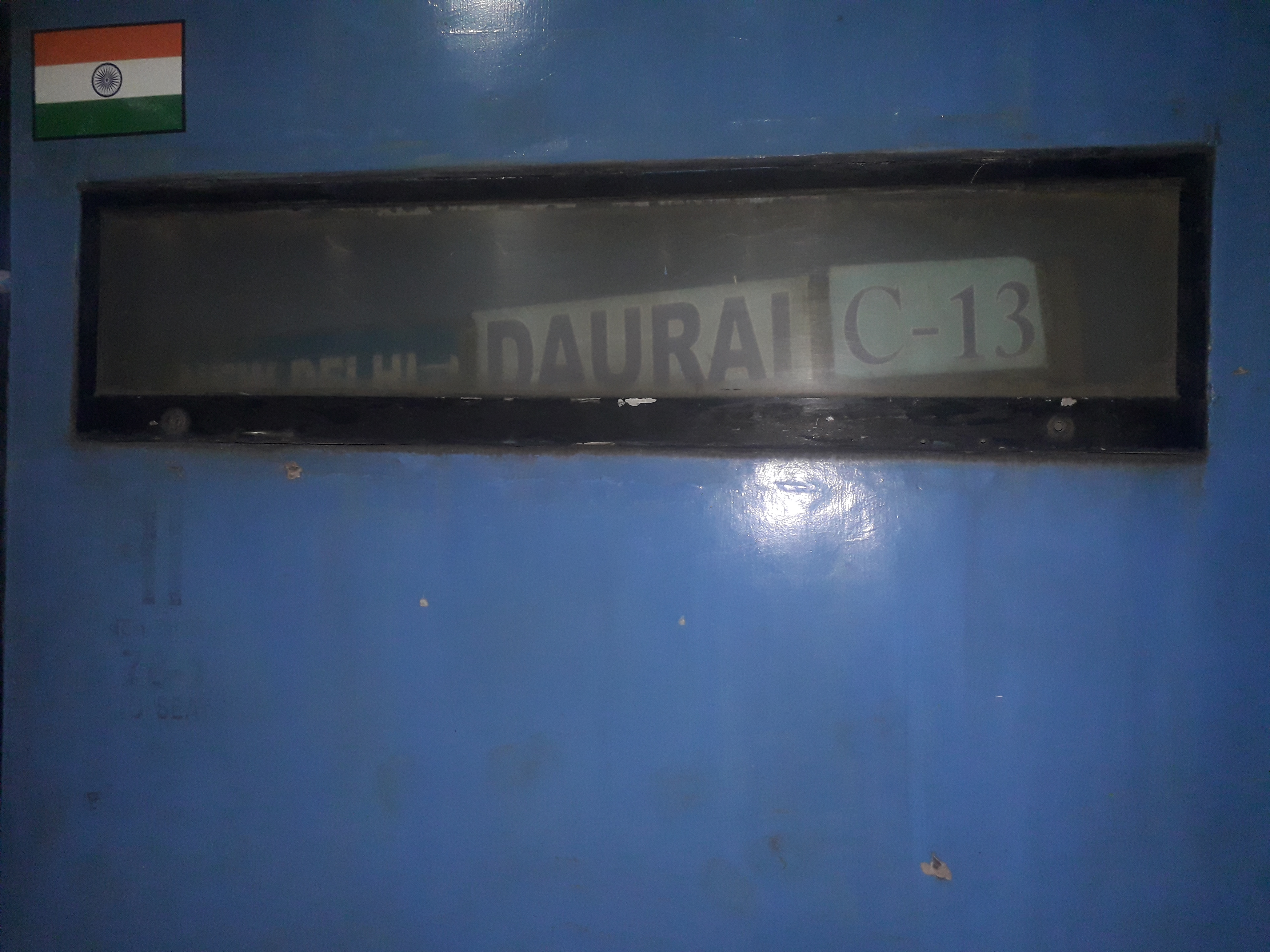 New Delhi Daurai (Ajmer) Shatabdi Express - AC Chair Car coach - C13